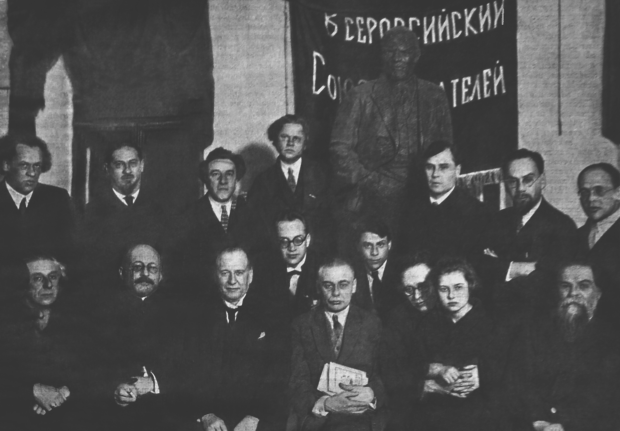 sitting left to right: Georgy Chulkov, Vikenty Veresaev, Christian Rakovsky, Boris Pilnyak, Aleksandr Voronsky, Petr Oreshin, Karl Radek and Pavel Sakulin standing left to right: Ivan Evdokimov, Vasily Lvov-Rogachevsky, Vyacheslav Polonsky, Feodor Gladkov, Mikhail Gerasimov, Abram Ėfros and Isaac Babel Differing description: Meeting in Moscow on 21 February 1927 at the Herzen House. In commemoration of the journal, "Red Virign Soil."